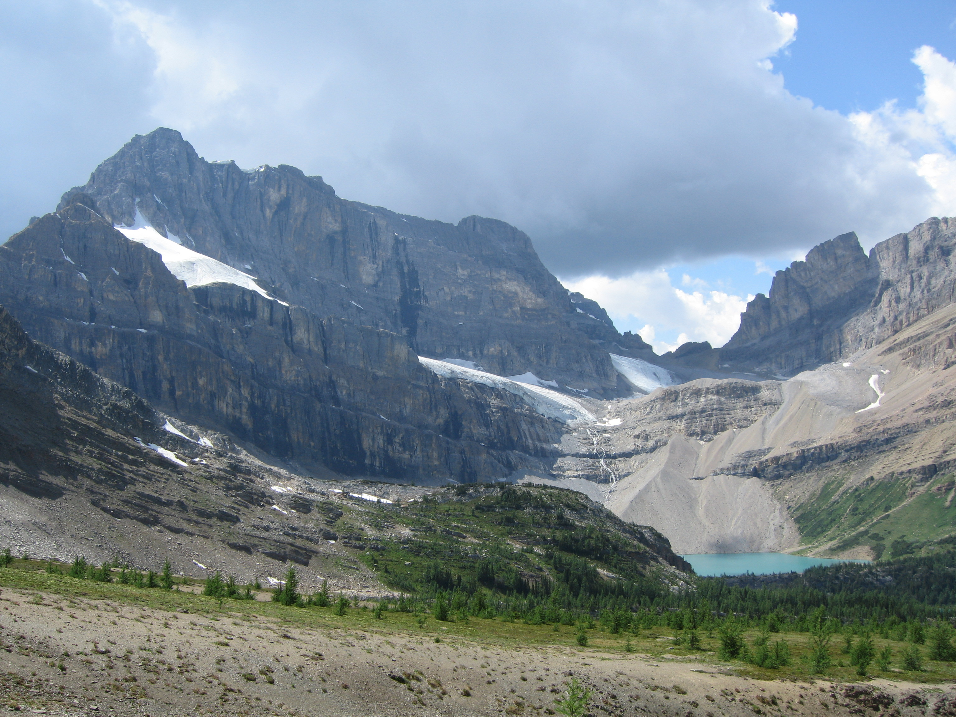 Lakes below Deception Pass